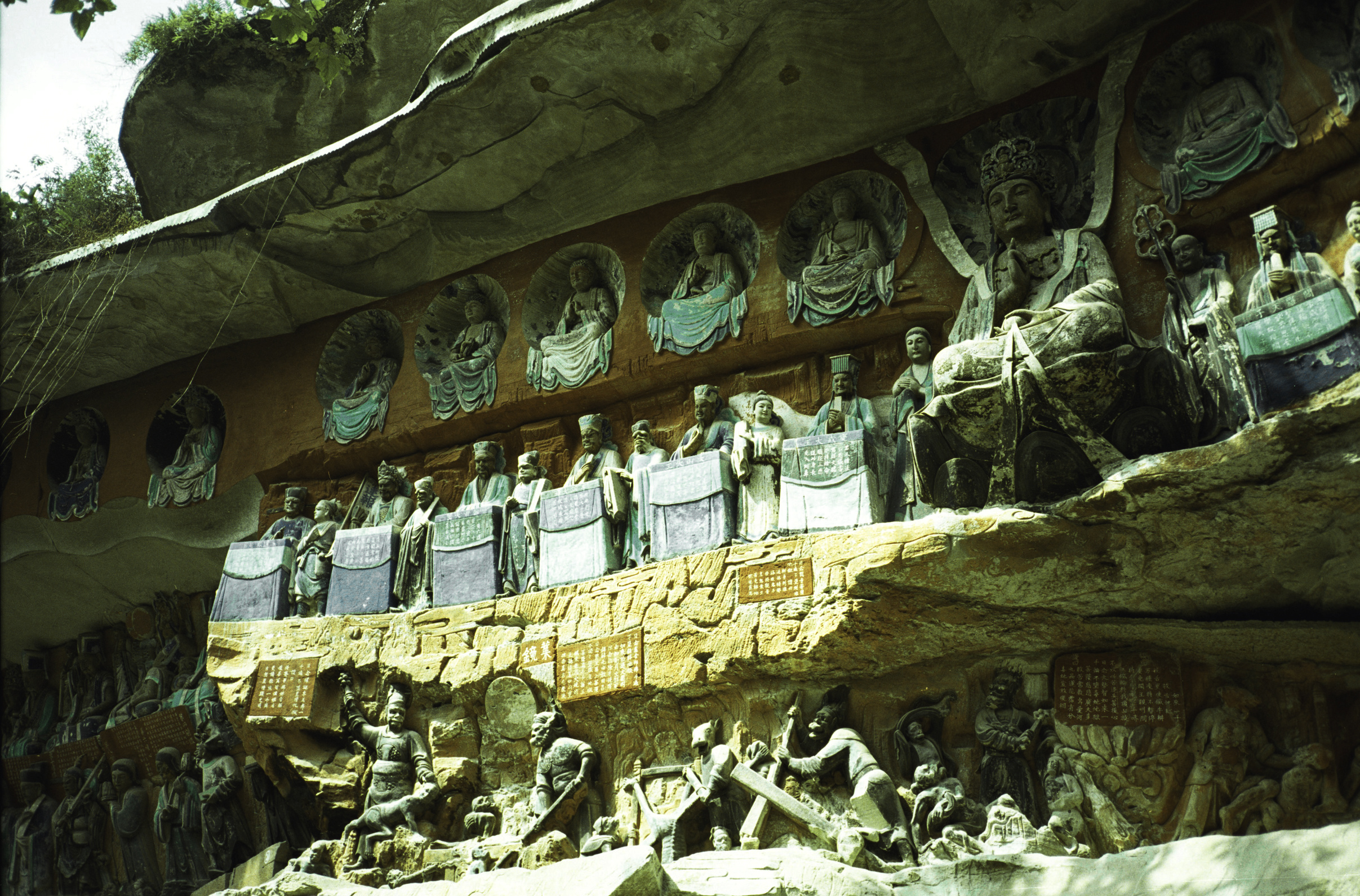 Baodingshan stone carving 宝顶山石刻